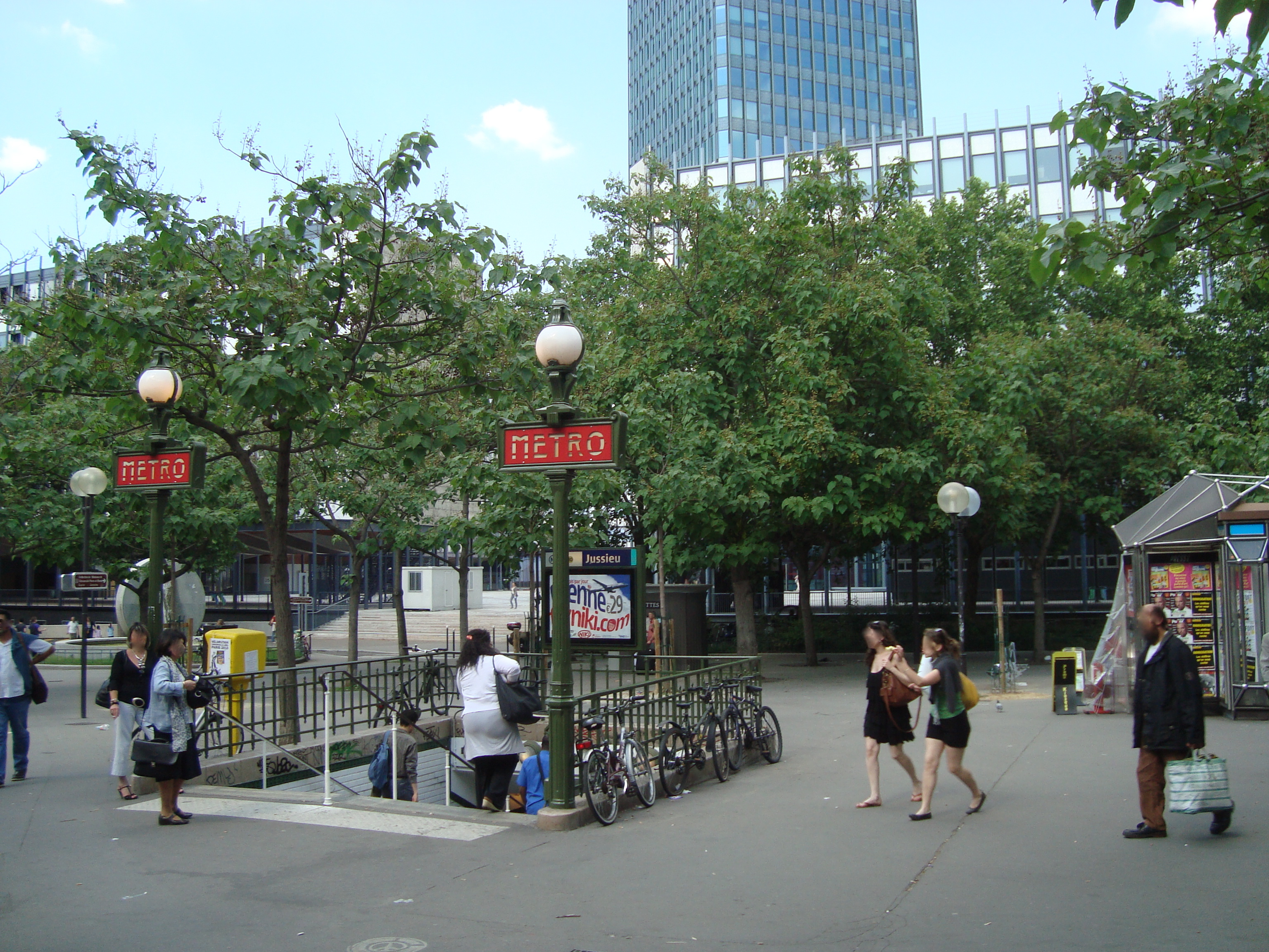 View of the place Jussieu in Paris